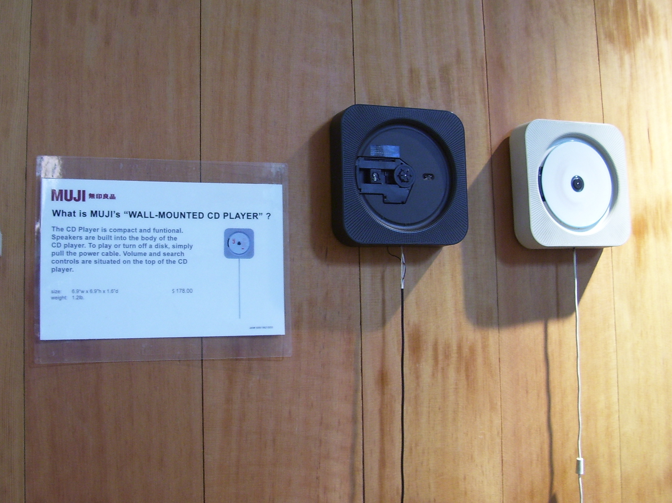 Muji by NYC's Times Square, in the NYT building, Frnt 2, 620 8th Avenue, New York